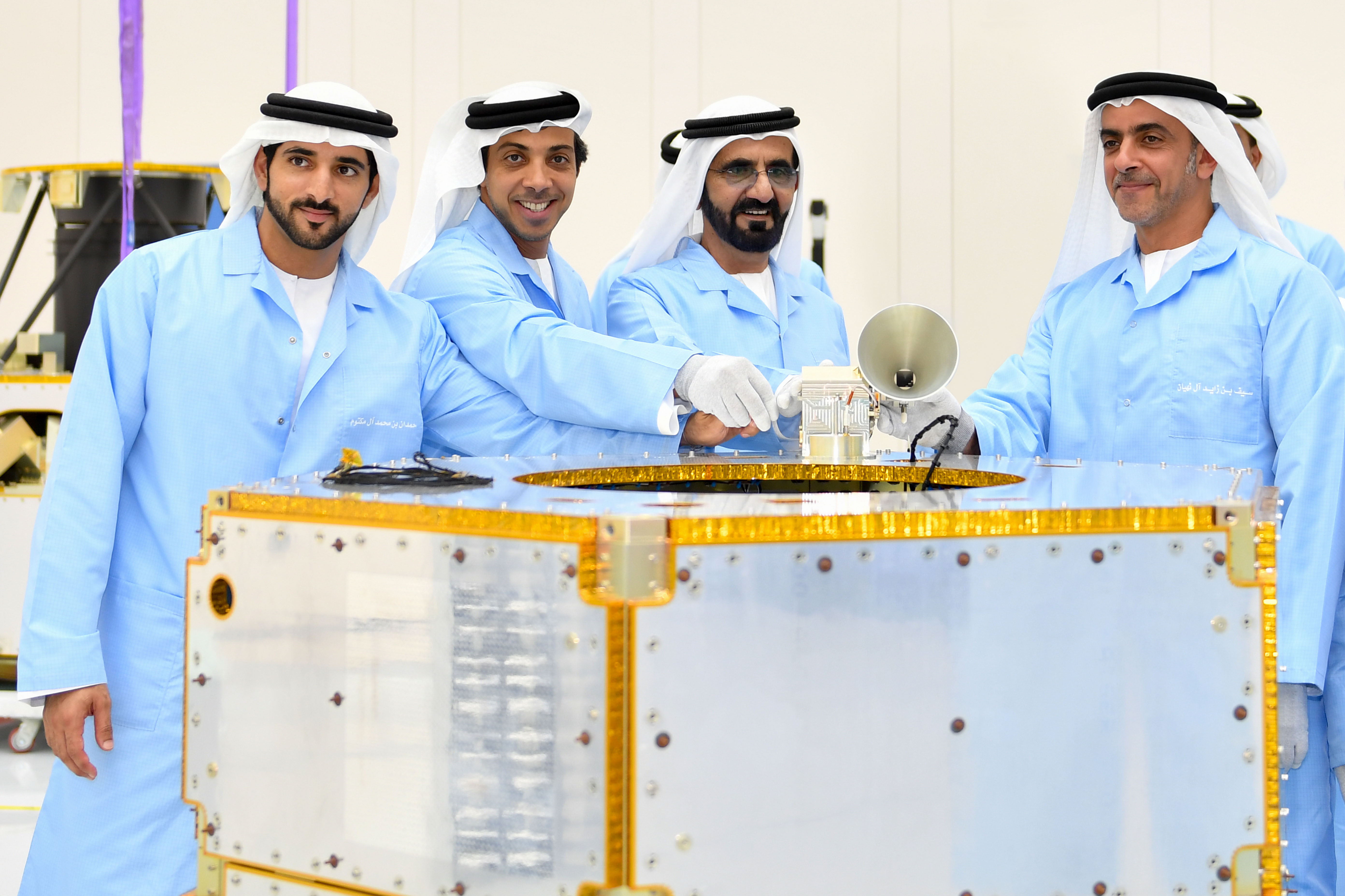 His Highness Sheikh Mohammed bin Rashid Al Maktoum placed the first component on the chassis of KhalifaSat.